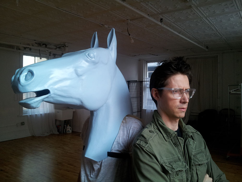 Luke Leonard with performer Jessie Pohlman at La MaMa Great Jones Rehearsal Studios in New York, 2012.